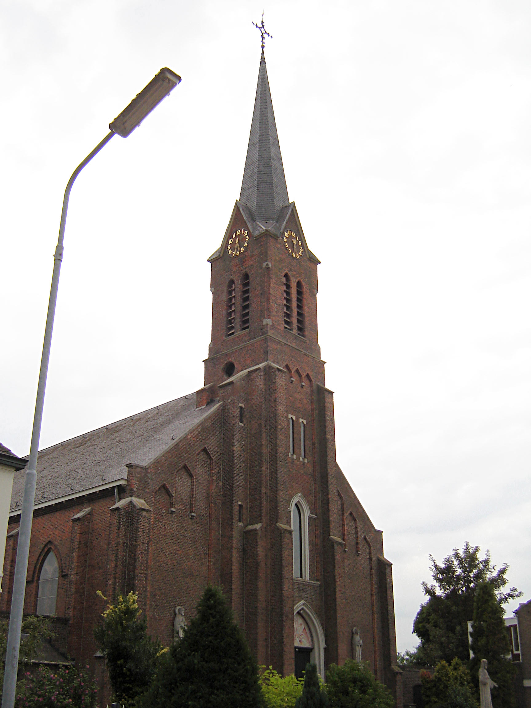 Church of Saint Peter and Paul in Vogelwaarde (Boschkapelle part). Vogelwaarde, Hulst, Zeeland, Netherlands.